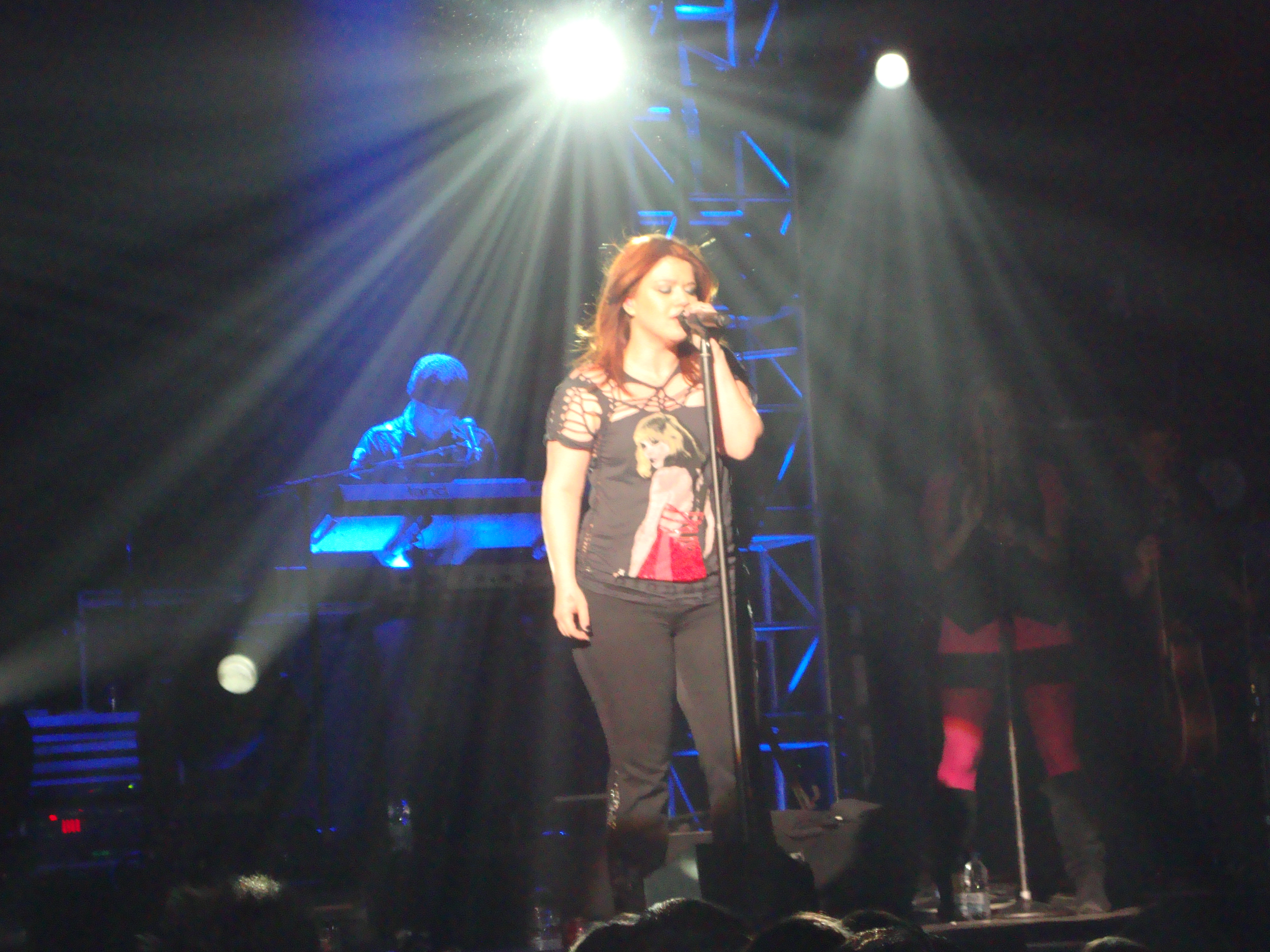 Kelly Clarkson Performing at the O2 Academy, Glasgow, Scotland February 11th 2010